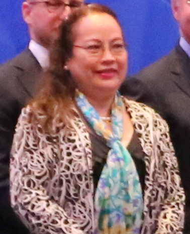 Paulyn Ubial, then Philippine Health secretary attends the 7th APEC High Level Meeting on Health and the Economy in Ho Chi Minh City from Aug 22 to 25, 2017.